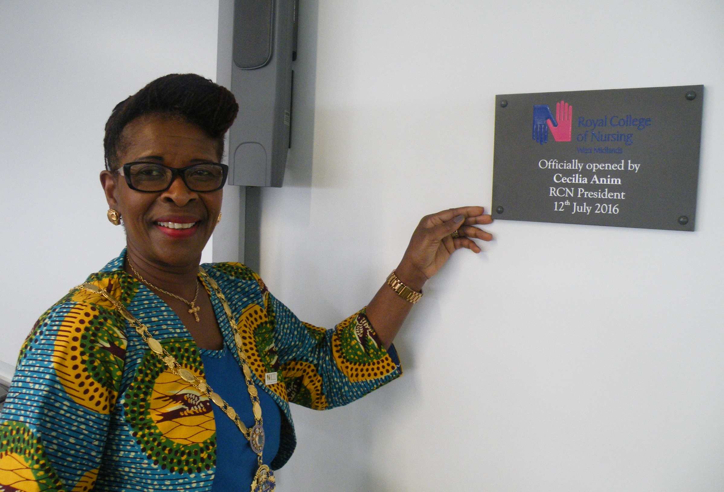 Cecelia Anim CBE in 2016